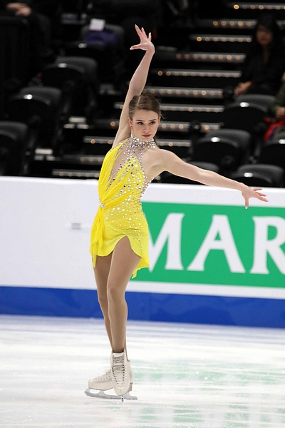 Isadora Williams at the 2019 Four Continents Championships - SP